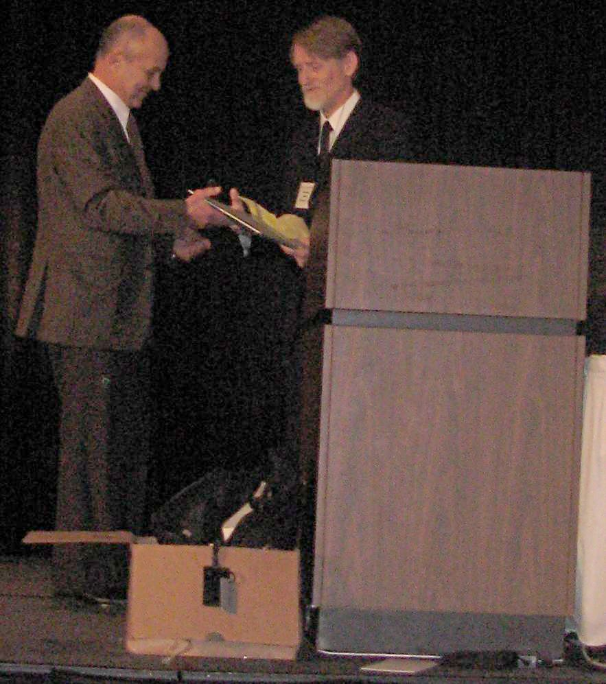 Eugene Fama receiving the inaugural Morgan Stanley-American Finance Association Award from Rick Green